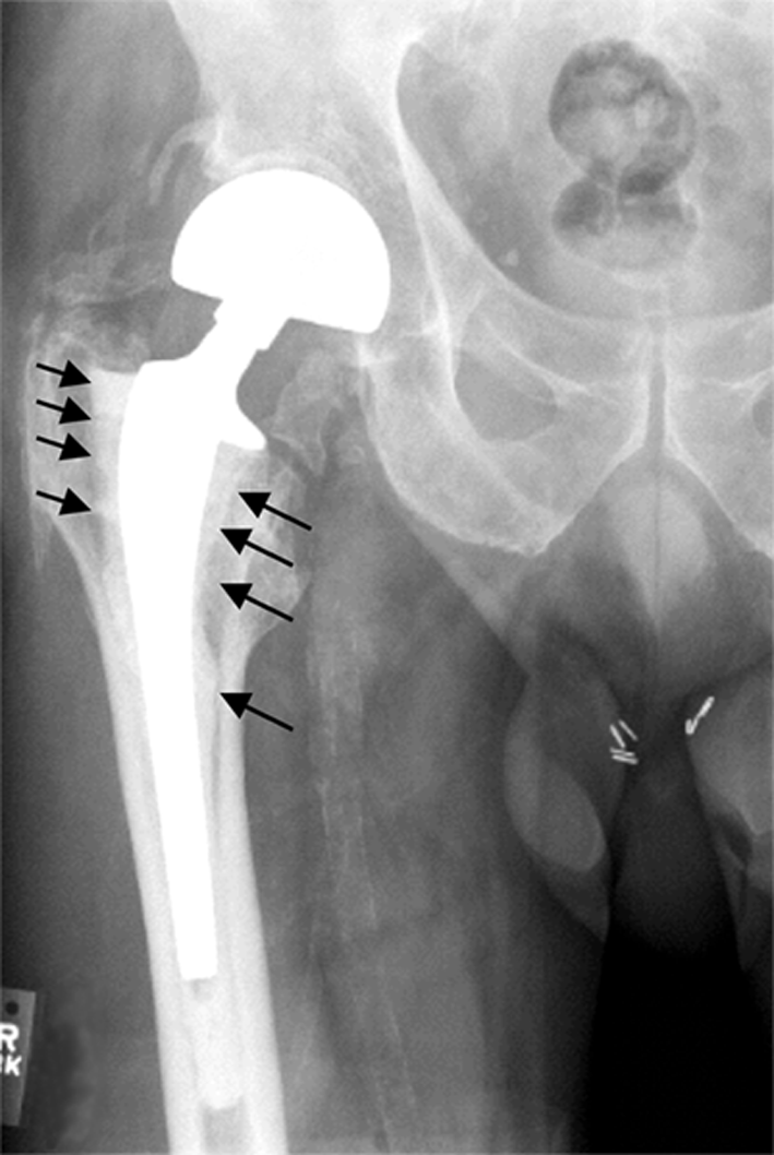 Preoperative radiograph from a patient before revision hip arthroplasty for aseptic loosening, with radiolucent peri-implant osteolysis along the femoral shaft. Arrows point at the radiodense cement surrounding the prosthesis.